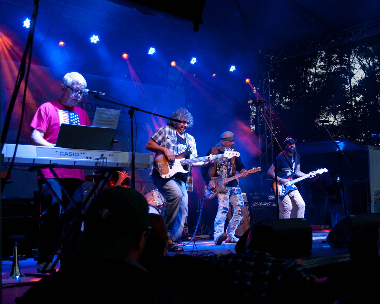 Poduene Blues Band featuring Razvigor Popov on the keyboards at "Flower for Gosho Fest" 2015, South park, Sofia.